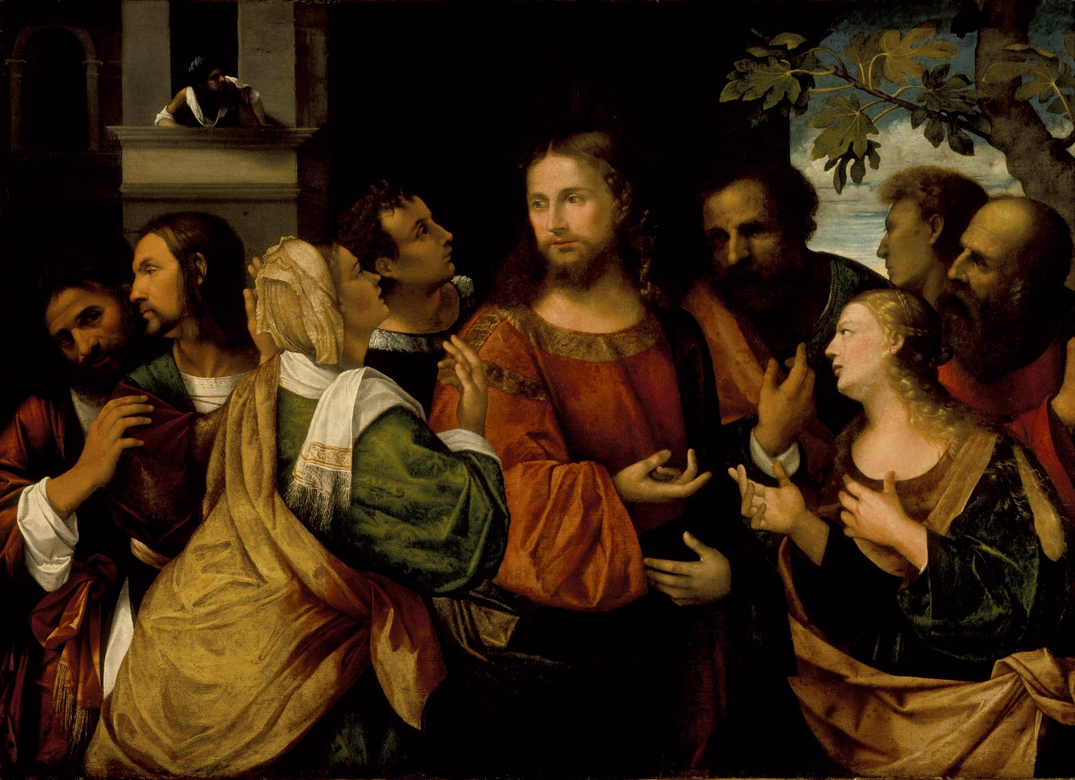 Italy, circa 1520 Paintings Oil on canvas William Randolph Hearst Collection (49.17.9) European Painting